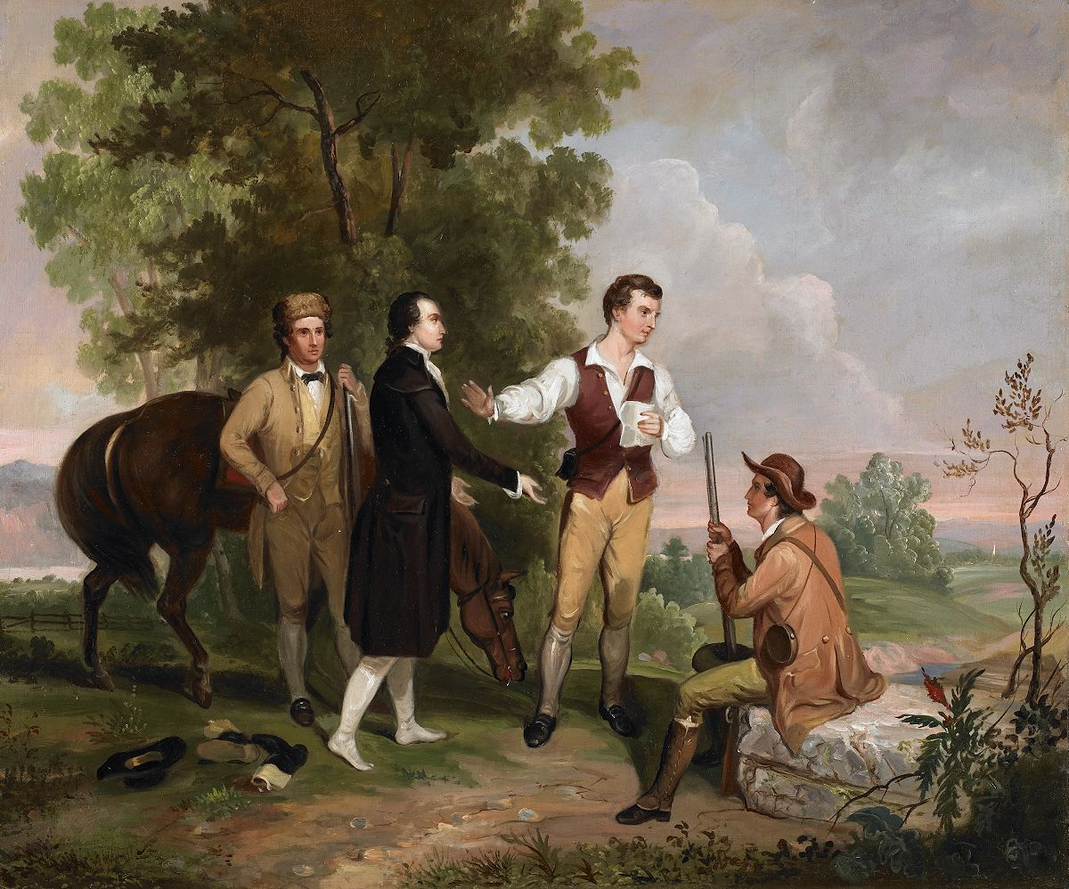 The image depicts Major John André, a British spy being detained by armed militia men in New York. The painting displays a lush landscape which Durand is best remembered for.